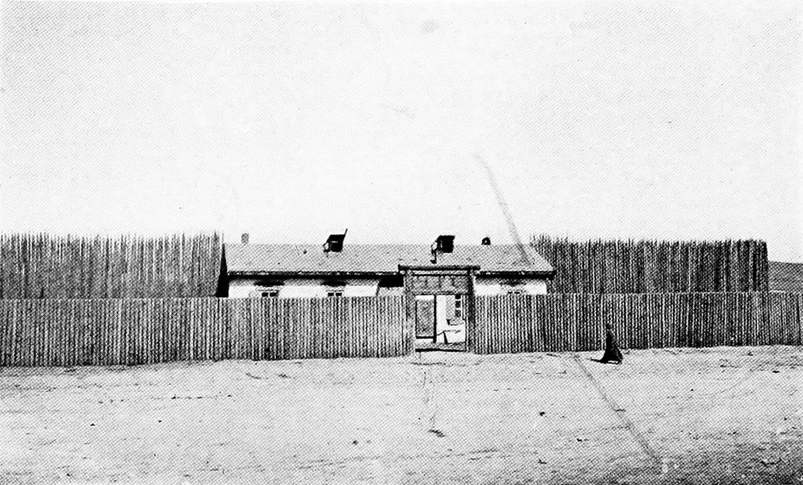 Photo from Across Mongolian Plains A Naturalist's Account of China's "Great Northwest"